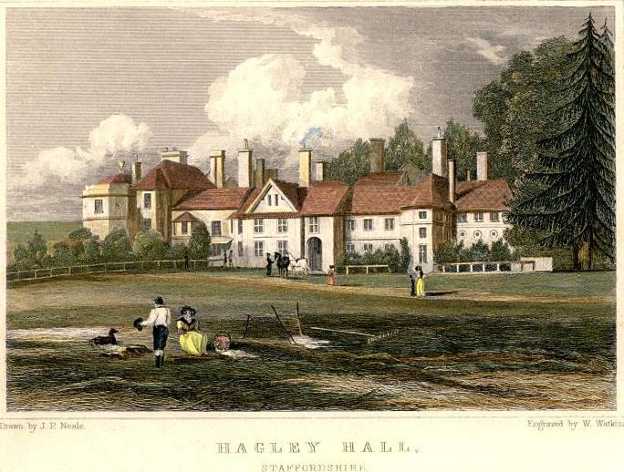 A tinted engraving of Hagley Hall, Rugeley, published in 1822, the work of John Preston Neale. The view is taken from the estate approach, with the octagonal drawing room on the left.